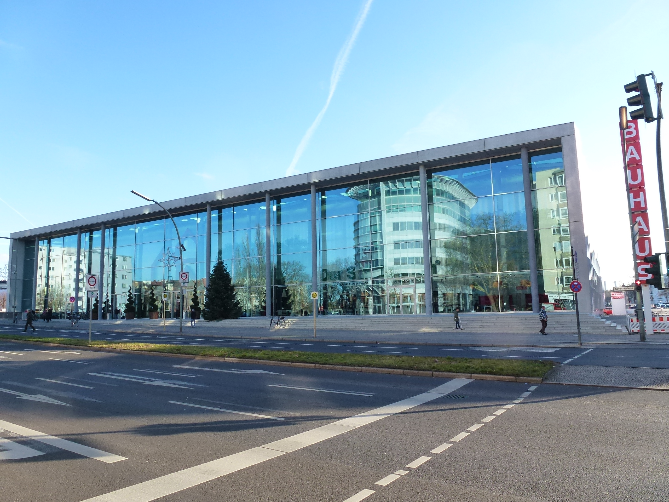 Berlin-Halensee Kurfürstendamm Bauhaus